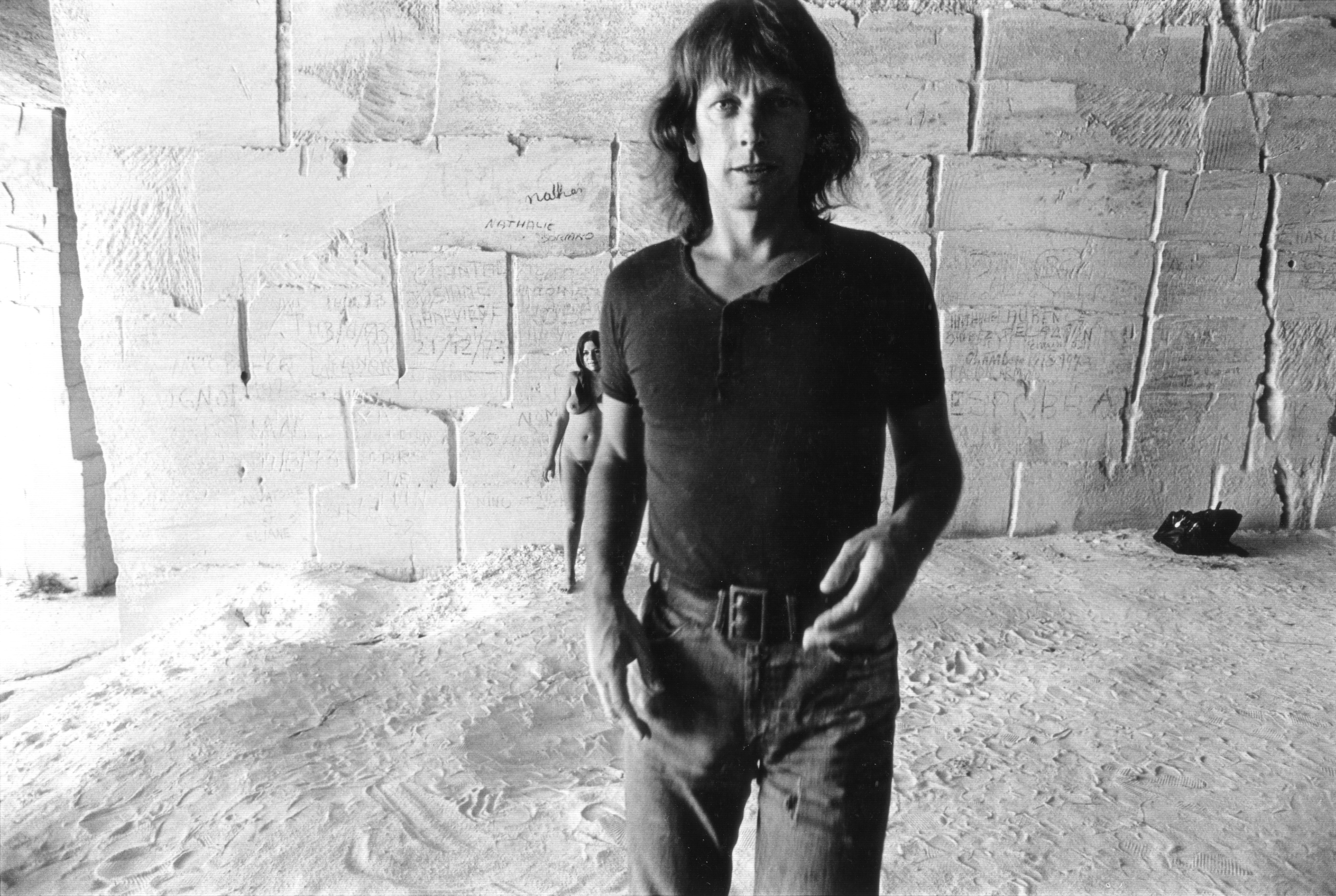 Will McBride and female model, Southern France, 1975. The photograph was taken during 6th Rencontres Internationales de la Photographie, Arles, 1975, at 'Les Beaux de Provence' caves. Will was in a strange mood, at that time [photographer was not sure whether he might be cuffed his ears -- which was not the case ;]. Nikon 24mm lens.